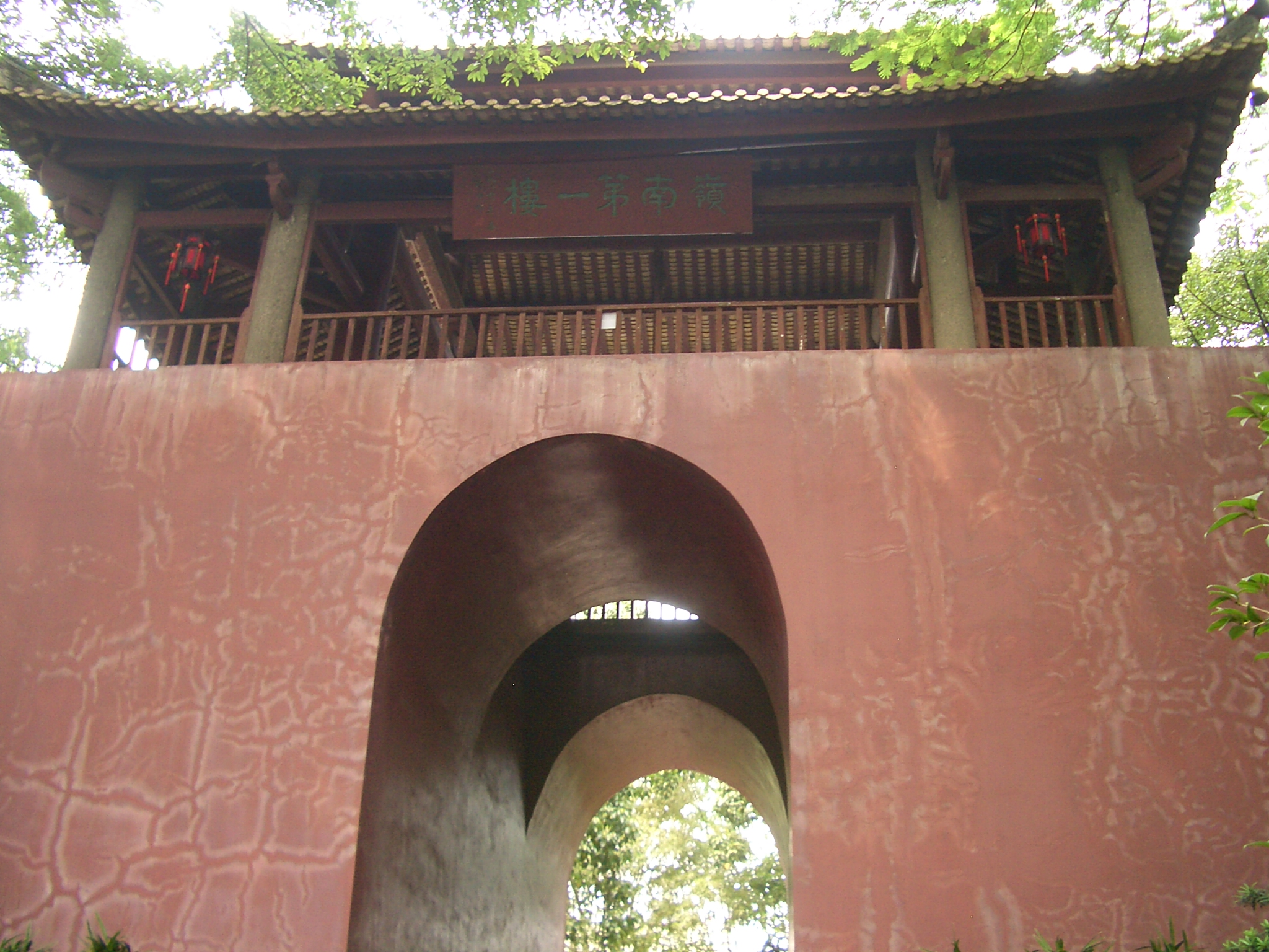 "The first tower of Lingnan" (the bell tower) in the Temple of the Five Immortals (Wu Xian Guan) in Guangzhou.